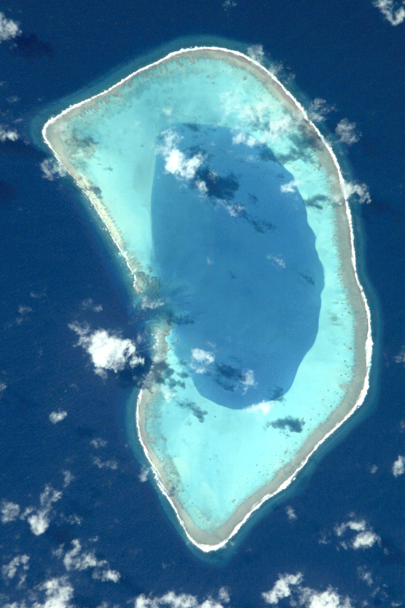 NASA astronaut image of Beveridge Reef near Niue, Pacific Ocean